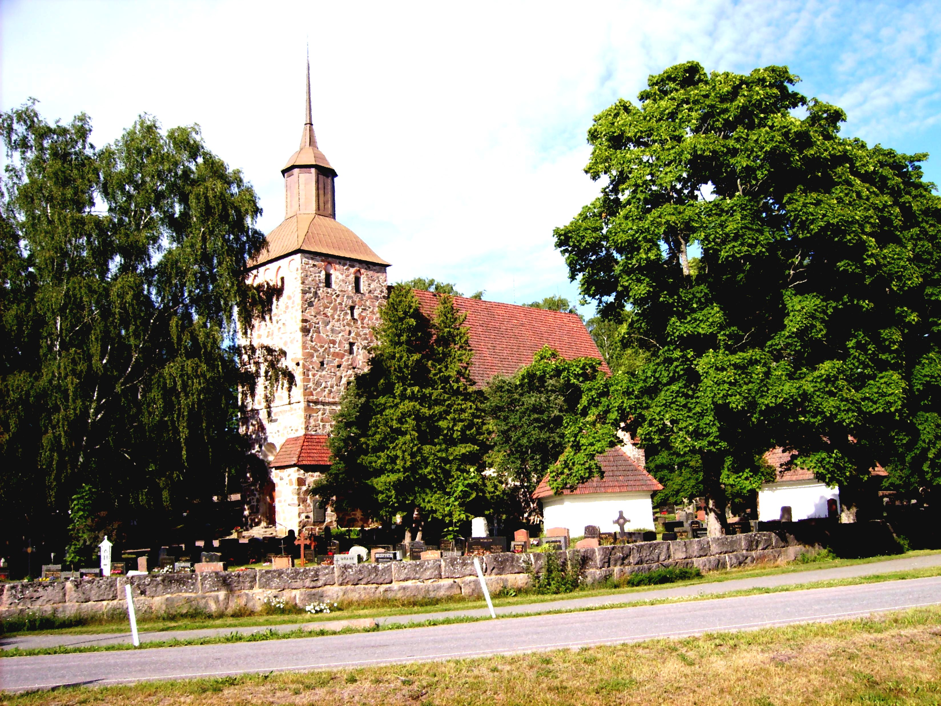 The medieval church in Korpo, Finland